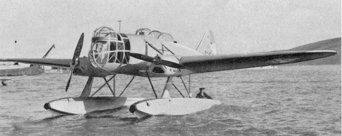 SIM-XIV H photo from L'Aerophile June 1938